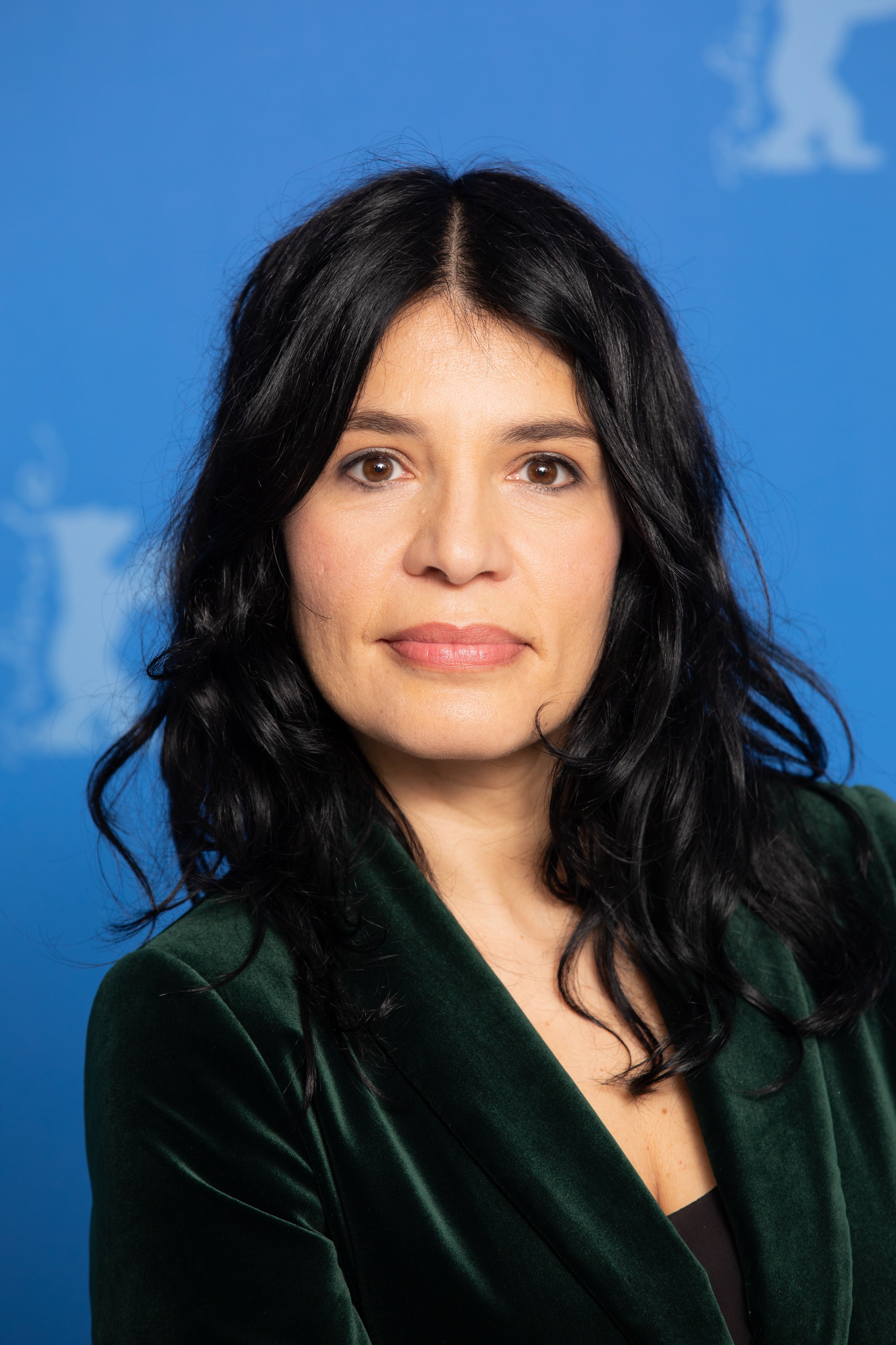 Teona Strugar Mitevska presenting God Exists at the Berlinale 2019